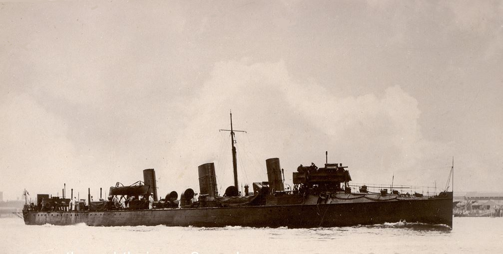 HMS Vulture (1898), built by J & G Thompson, Clydebank